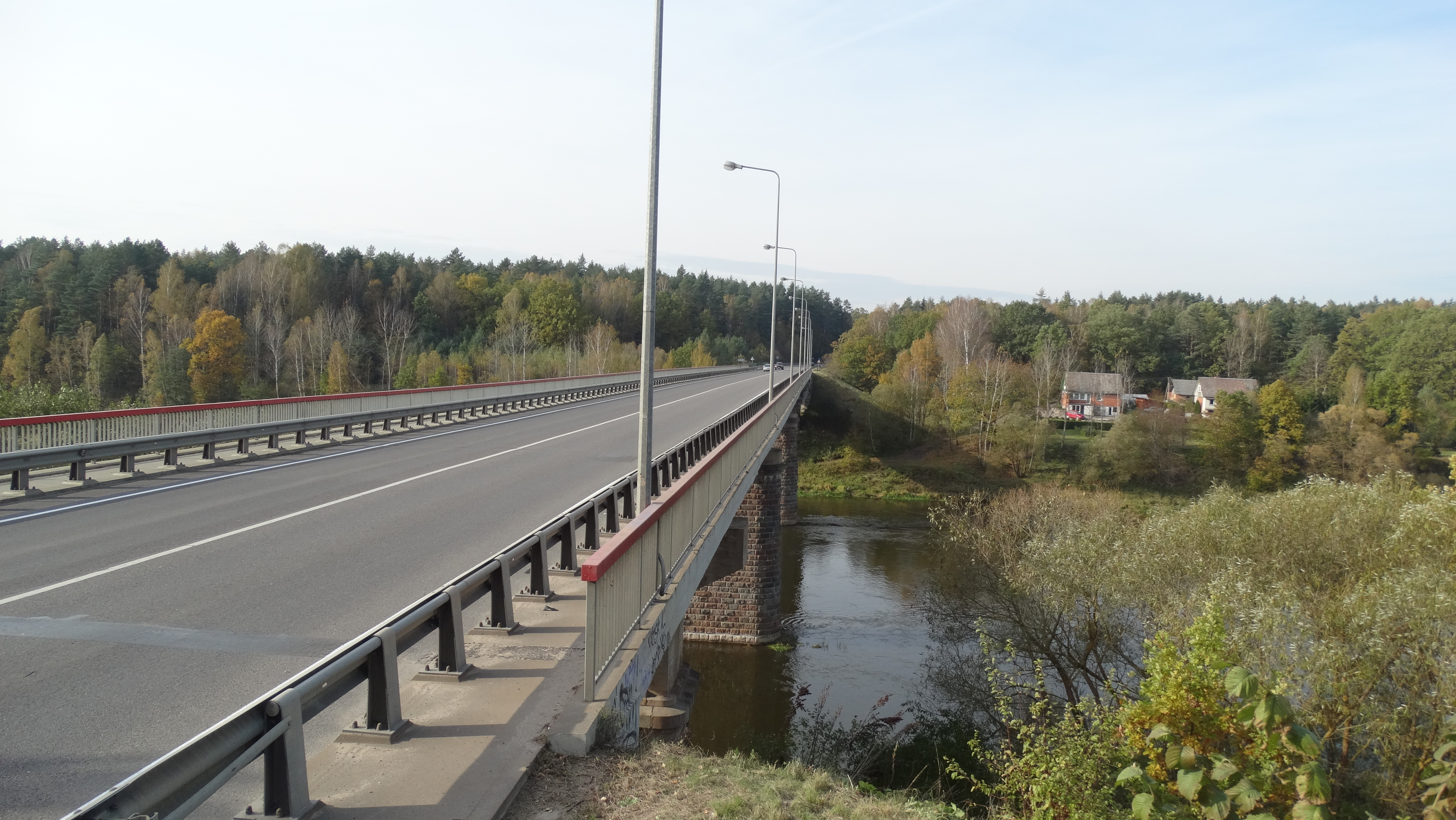 Kaniūkai bridge by Alytus, Lithuania